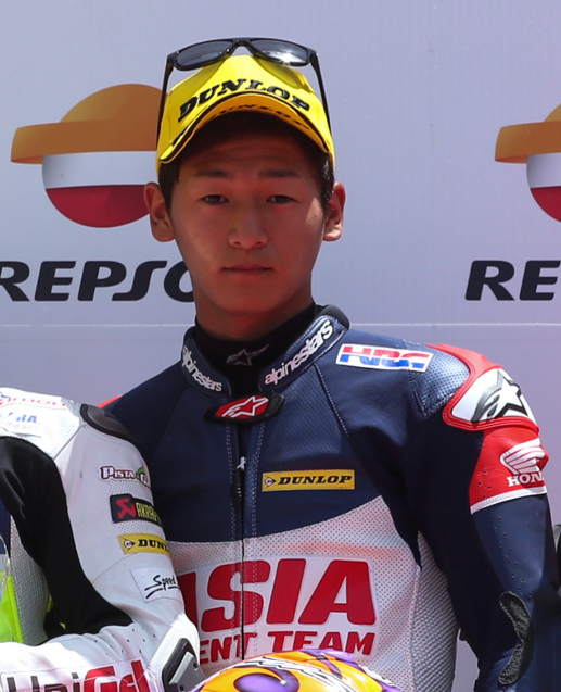 Kaito Toba on the podium of the 2016 CEV Moto3 Albacete race.